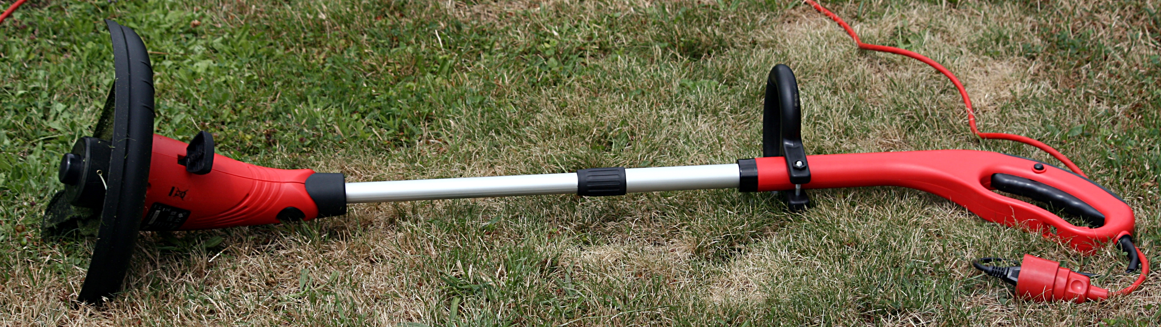 String trimmer